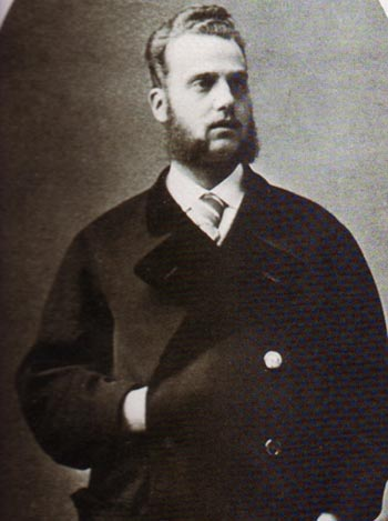 Grand Duke Alexei Alexandrovich of Russia during his 1872 tour of the United States, where he was commonly refered to as "Grand Duke Alexis"